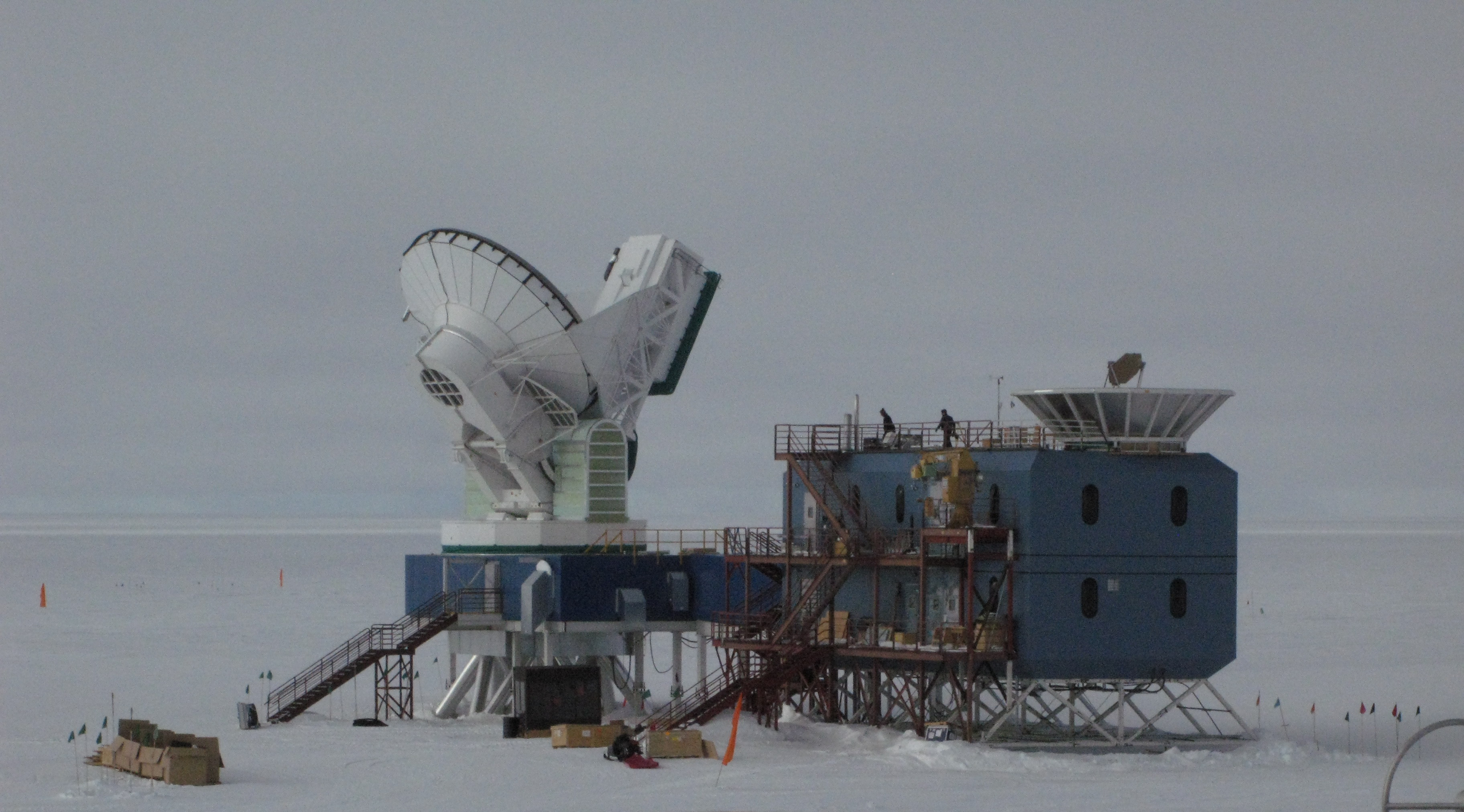 The Dark Sector Laboratory at Amundsen–Scott South Pole Station. At left is the South Pole Telescope. At right is the BICEP2 telescope.